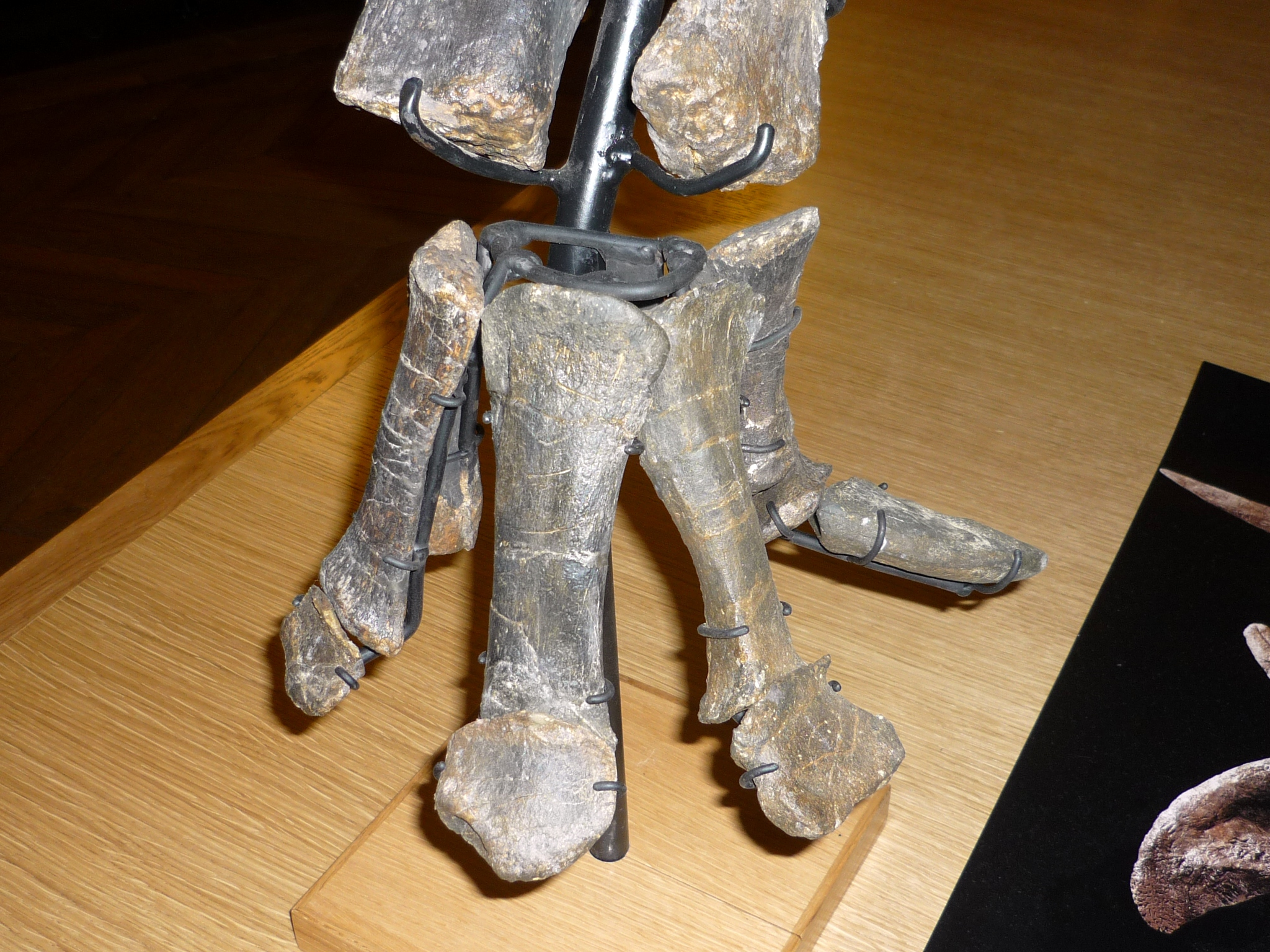 Foreleg of Suuwassea emiliae, Institut de paléontologie humaine, Paris, France